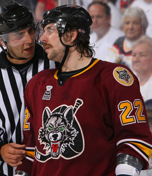 Photo: AFC Media